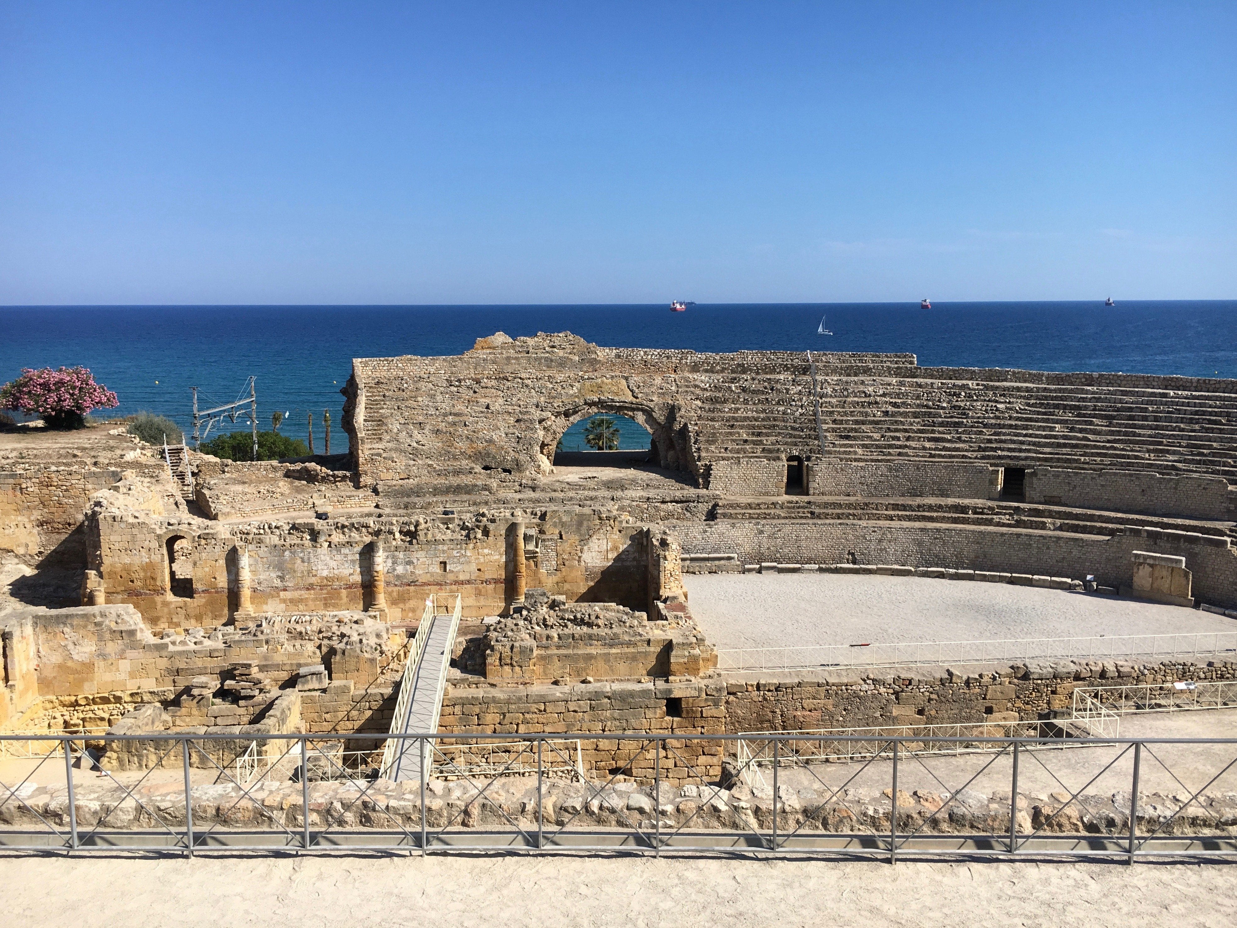 Roman amphiteatre, Tarragona